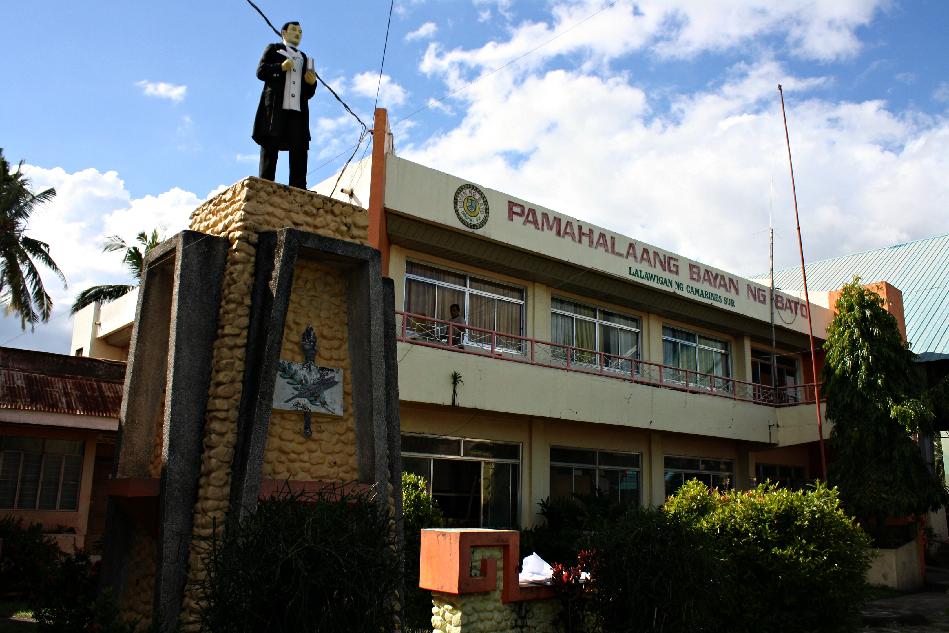 The seat of local governance in Bato, Camarines Sur with the Rizal Monument in the foreground.